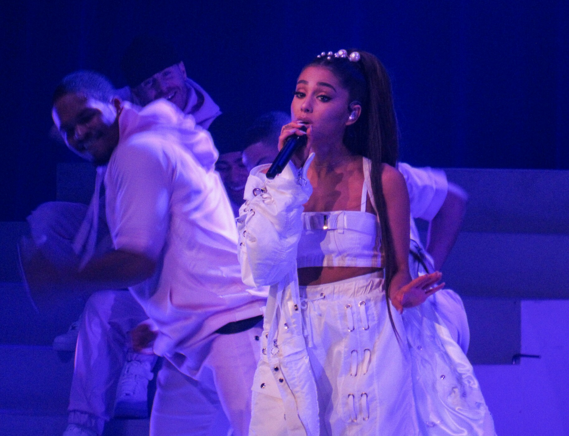 Ariana Grande performing during Dangerous Woman Tour on February 19, 2017.